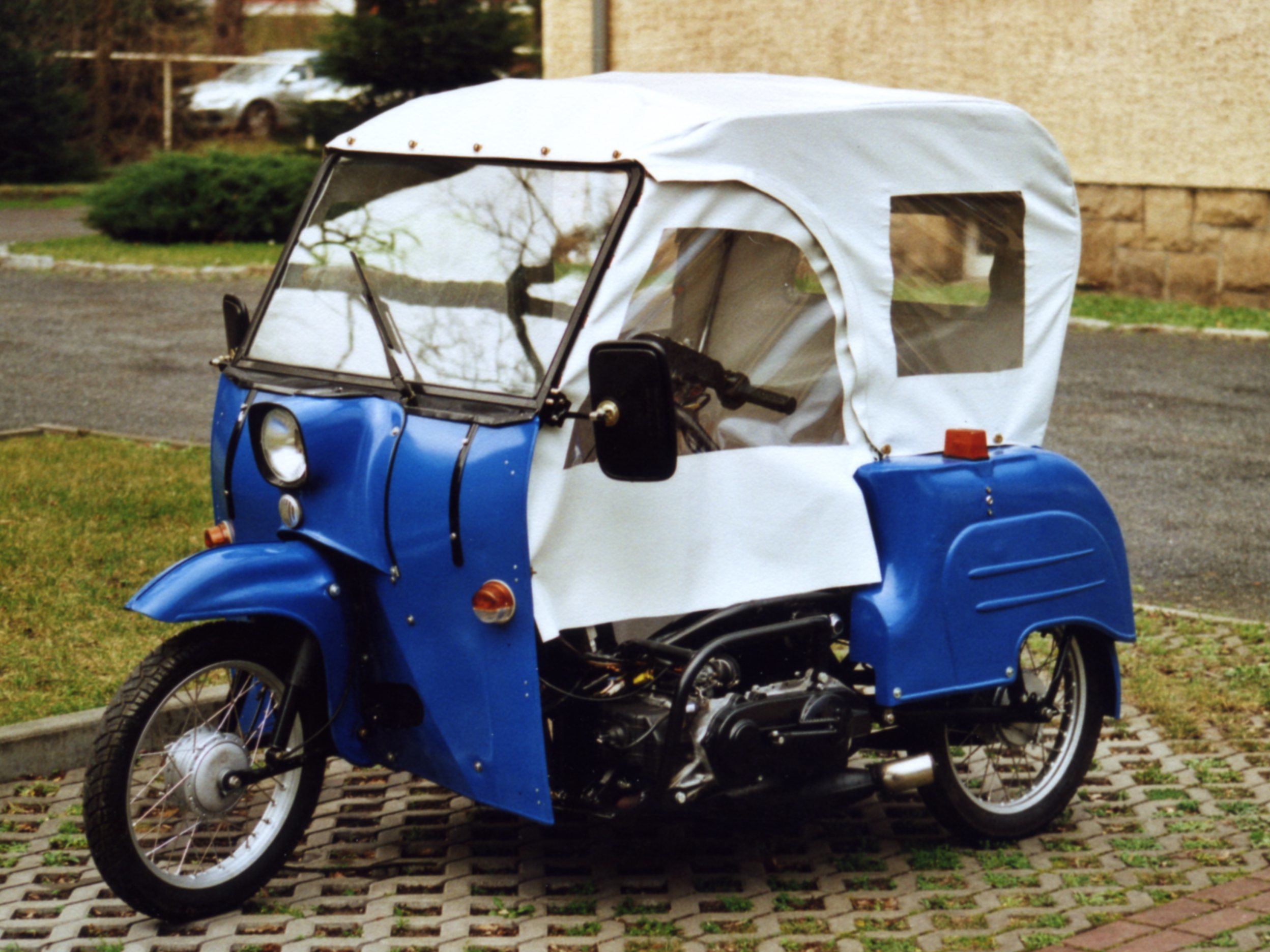 This image shows a DUO-tricycle, a vehicle made for people with handicap.